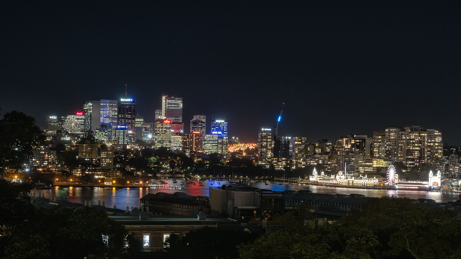 North Sydney commercial area